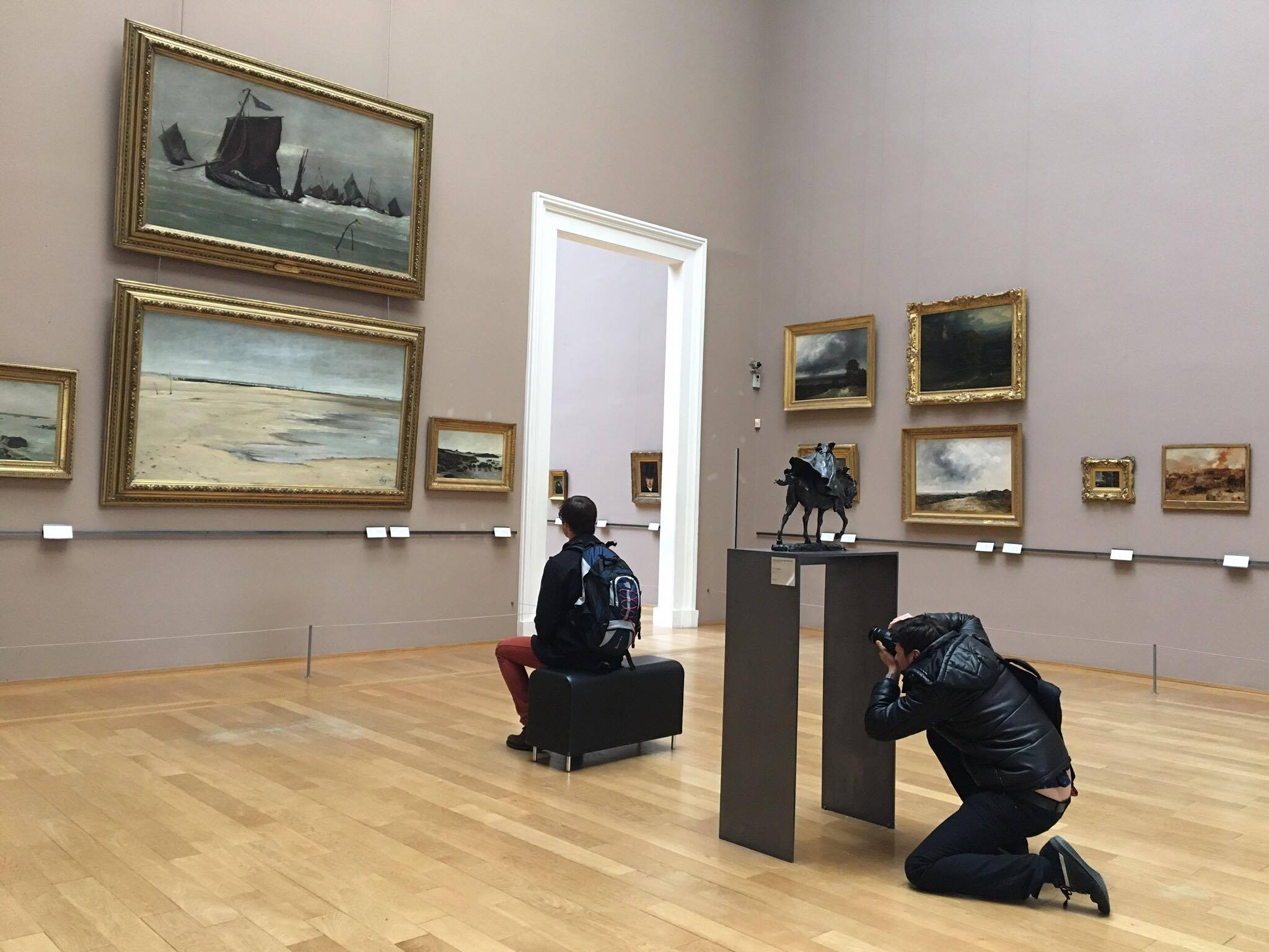 Taking a picture of someone looking at an artwork.